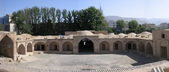 The stone built Shah-Abbasi Caravansary, located at the southeast of Towhid Square, Karaj.